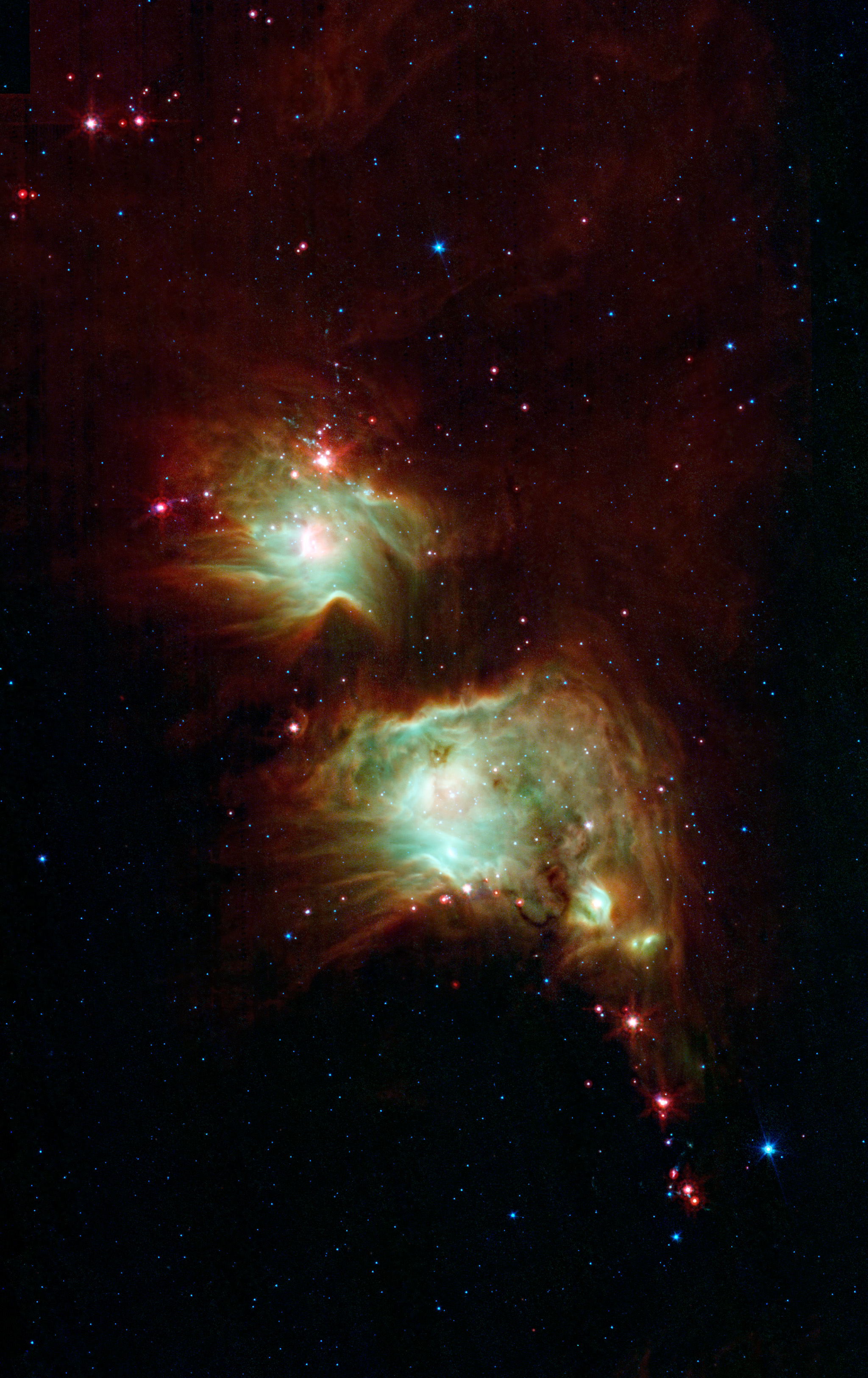 Looking like a pair of eyeglasses only a rock star would wear, this nebula brings into focus a murky region of star formation. Best known as Messier 78, the two round greenish nebulae are actually cavities carved out of the surrounding dark dust clouds. The extended dust is mostly dark, even to Spitzer's view, but the edges show up in mid-wavelength infrared light as glowing red frames surrounding the bright interiors. The light from young, newborn stars are starting to carve out cavities within the dust, and eventually, this will become a larger nebula. A string of baby stars that have yet to burn their way through their natal shells can be seen as red pinpoints on the outside of the nebula. Eventually these will blossom into their own glowing balls, turning this two-eyed eyeglass into a many-eyed monster of a nebula.